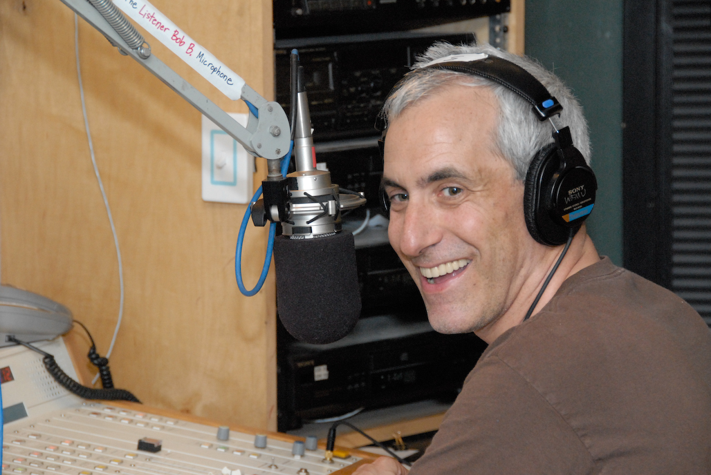 Seven Second Delay - WFMU Marathon 2008 - WFMU General Manager Ken Freedman